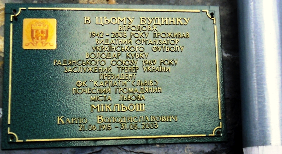 The commemorative spreadsheet at the house on the streets Morozenko 10 in Lviv, where had lived in the years 1942-2003 the famous footballer FC “Karpaty Lviv” Miklosh Carlo.